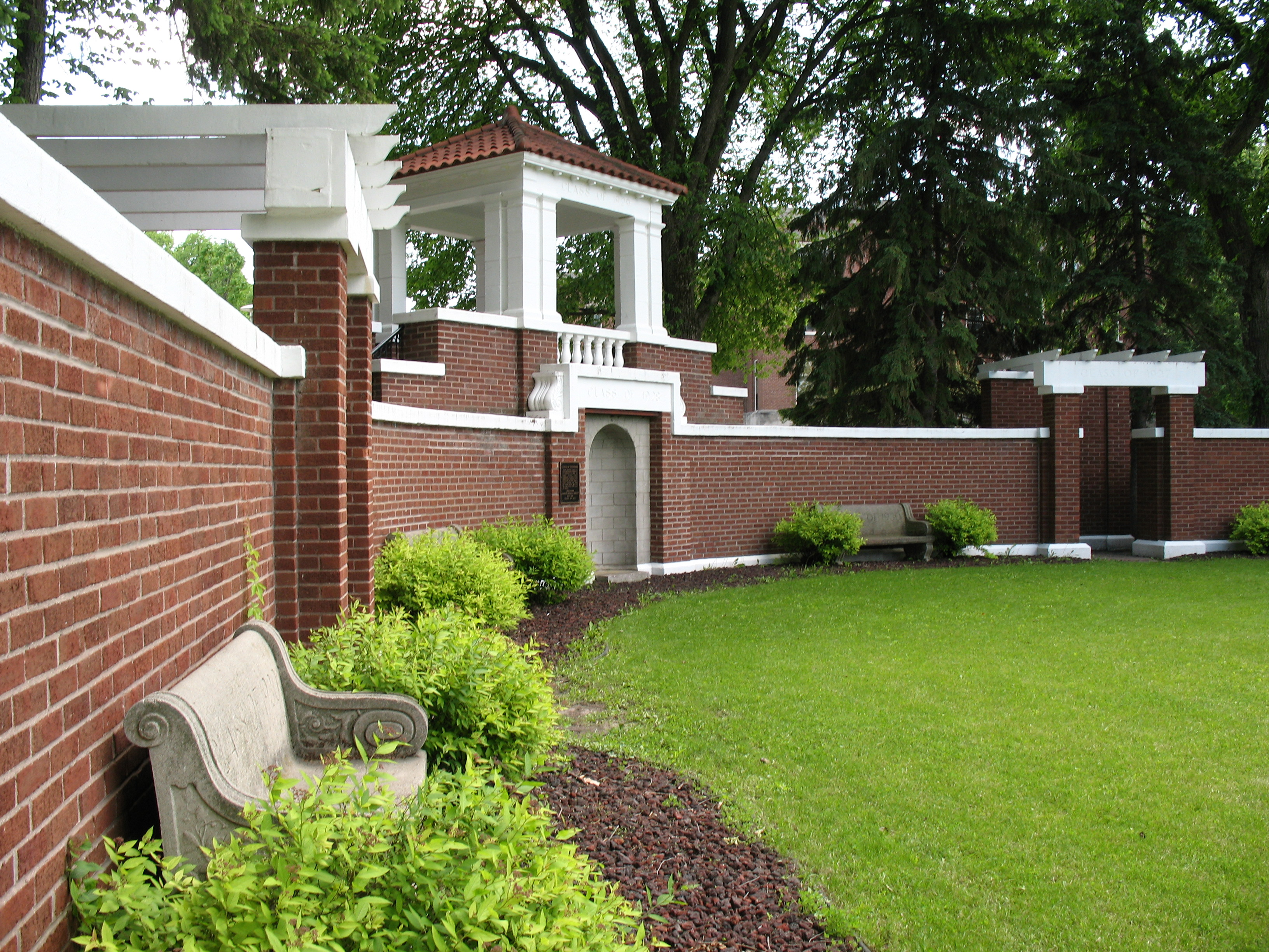 Sylvan theater on the Sylvan green at SDSU, Brookings, SD.